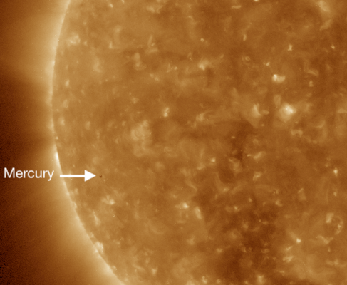 Mercury is passing across the sun today and the GOES-16 Solar Ultraviolet Imager (SUVI) instrument is tracking the transit. This image is from 8:00 a.m. EST on November 11, 2019. The event will last approximately five and a half hours from 7:35 a.m. to 1:04 p.m. EST. Transits of Mercury only happen about 13 times per century – the next transit will be in 2032 and in the U.S., the next opportunity to catch a Mercury transit is in 2049! More info on SUVI: More imagery